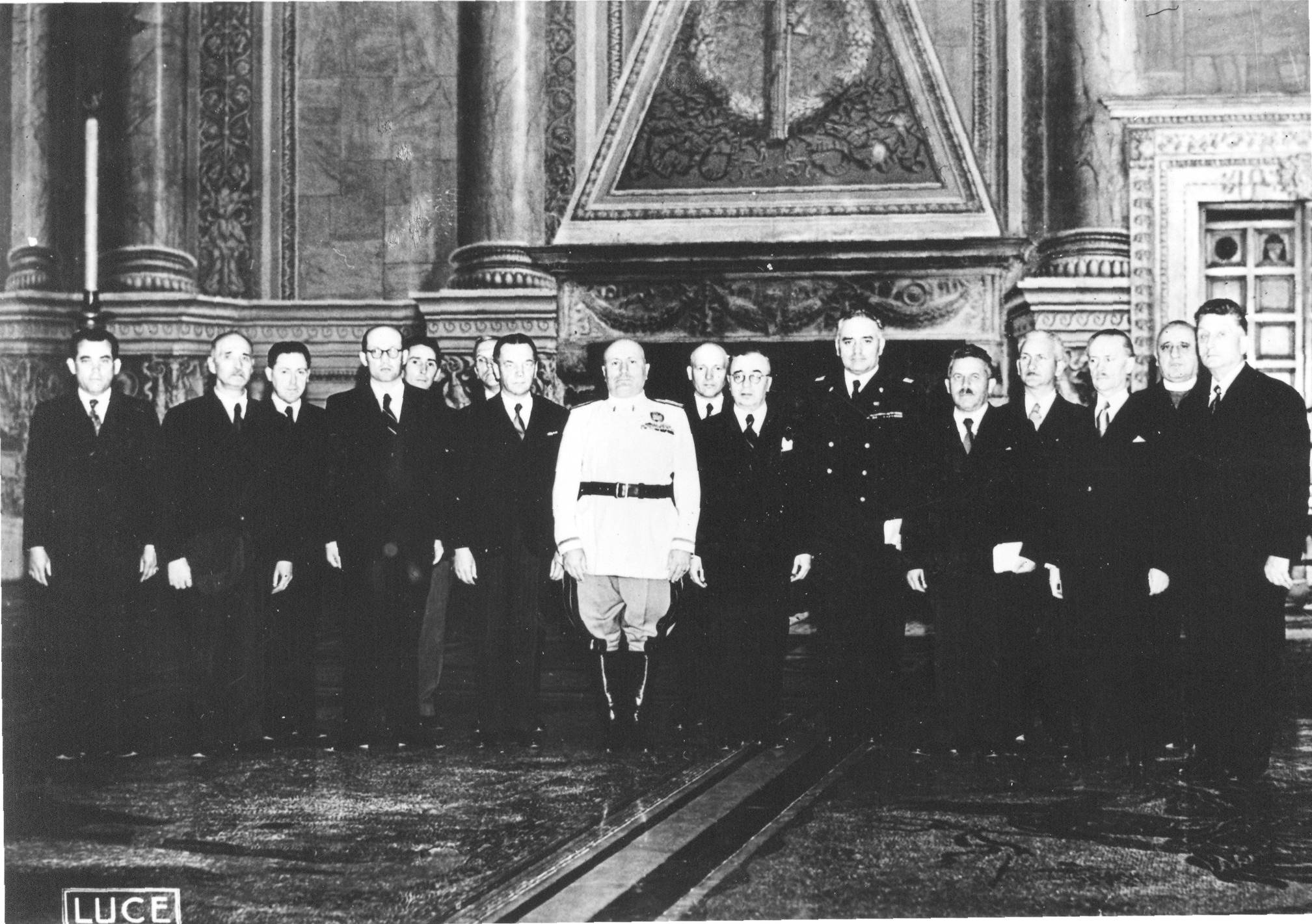 Advisory council of the High Commissioner's office from province of Ljubljana and Benito Mussolini